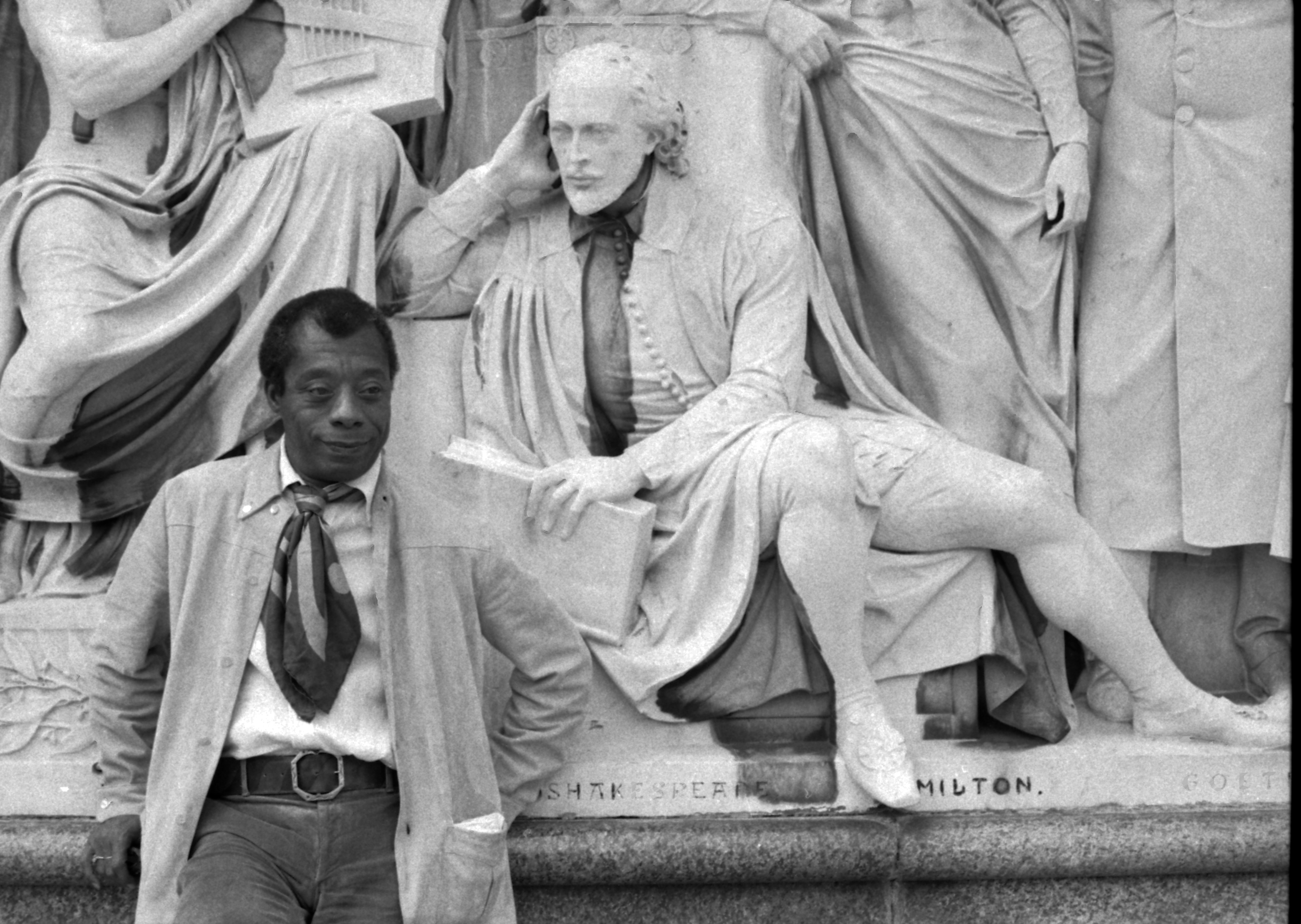 James Baldwin on the Albert Memorial with statue of Shakespeare